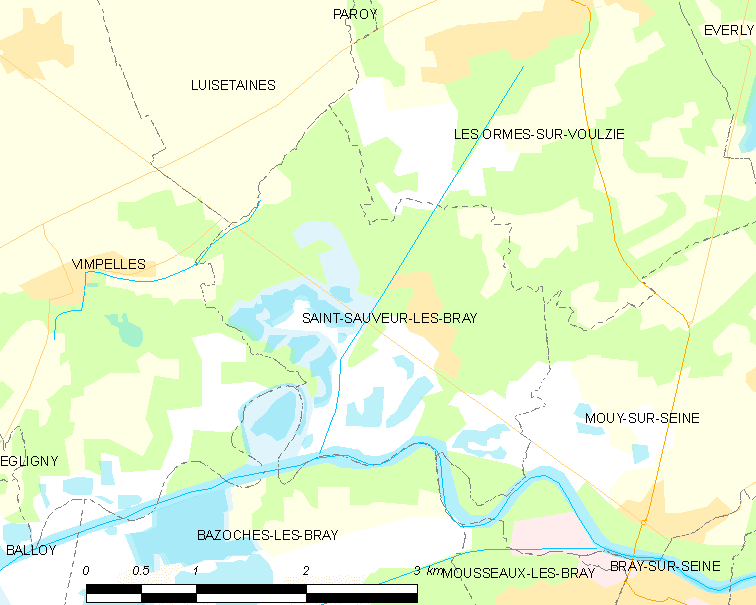 Map of French municipality Saint-Sauveur-lès-Bray